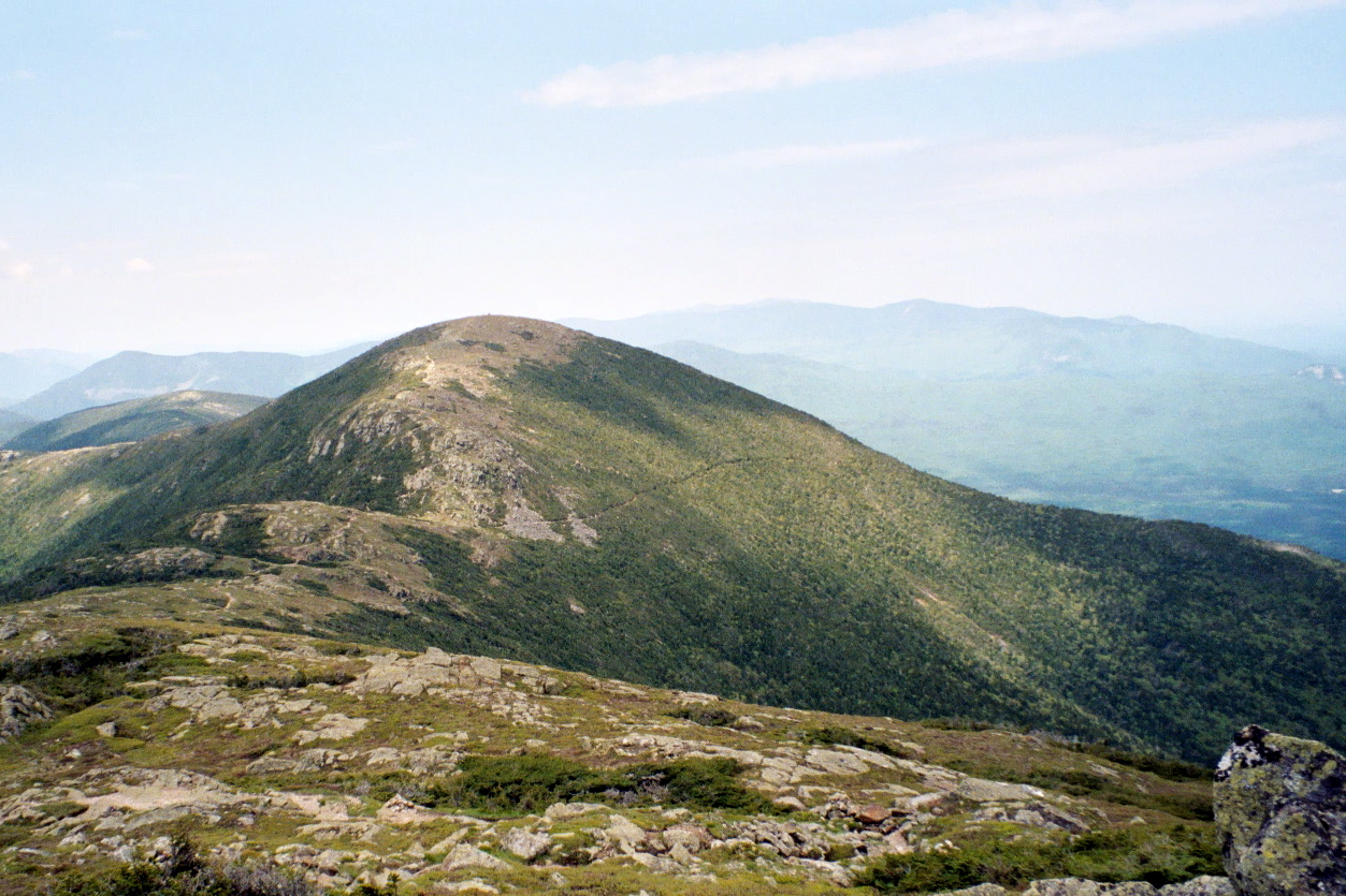 Mount Eisenhower. Picture taken June, 2006.